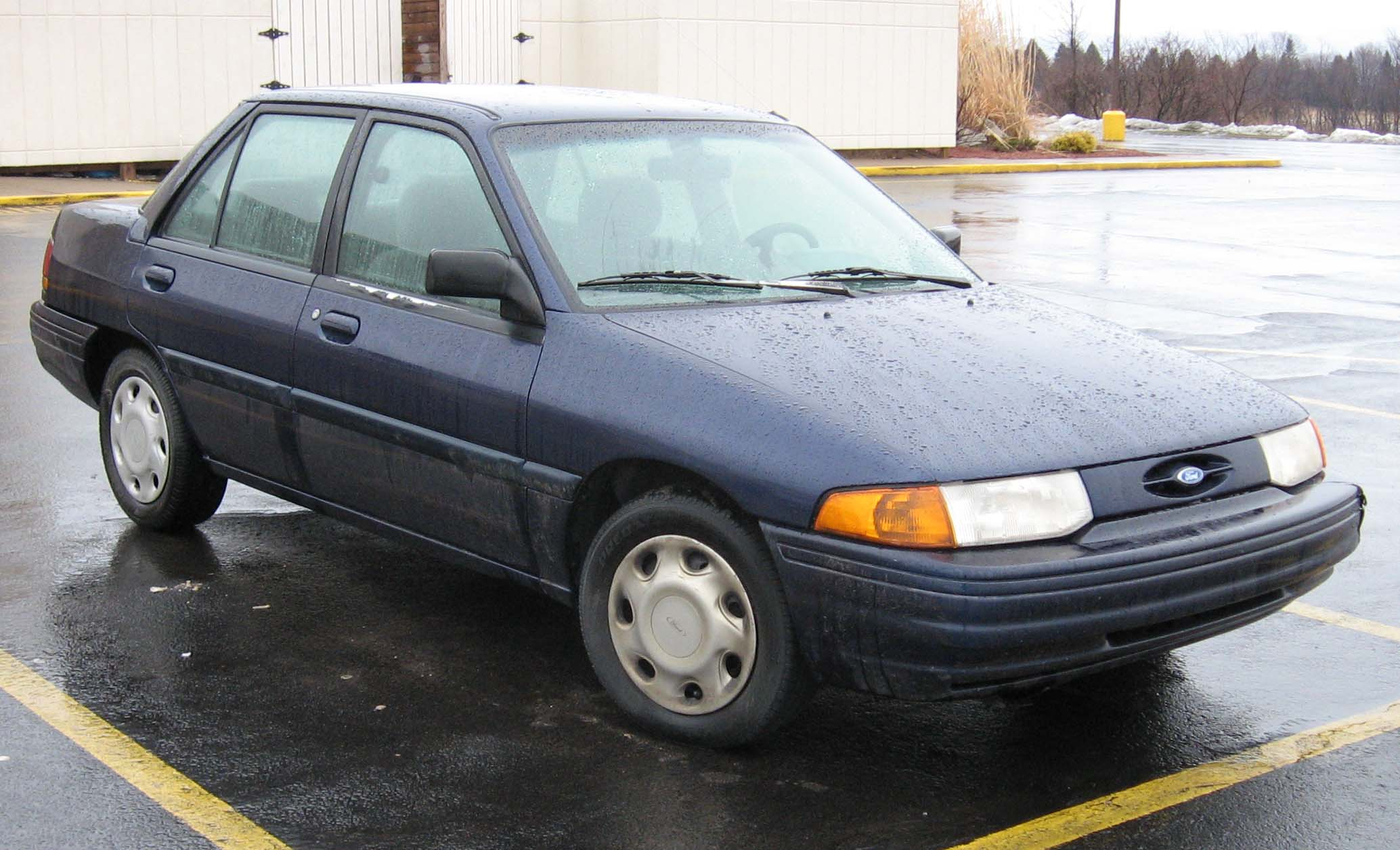 1995-1996 Ford Escort photographed in USA.